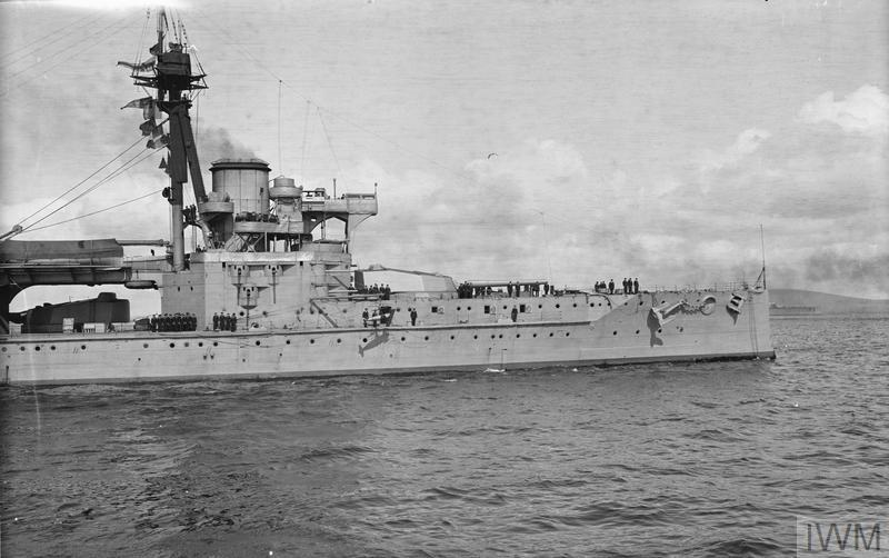 Bridge of the HMS Hercules, showing the 4 inch armaments.